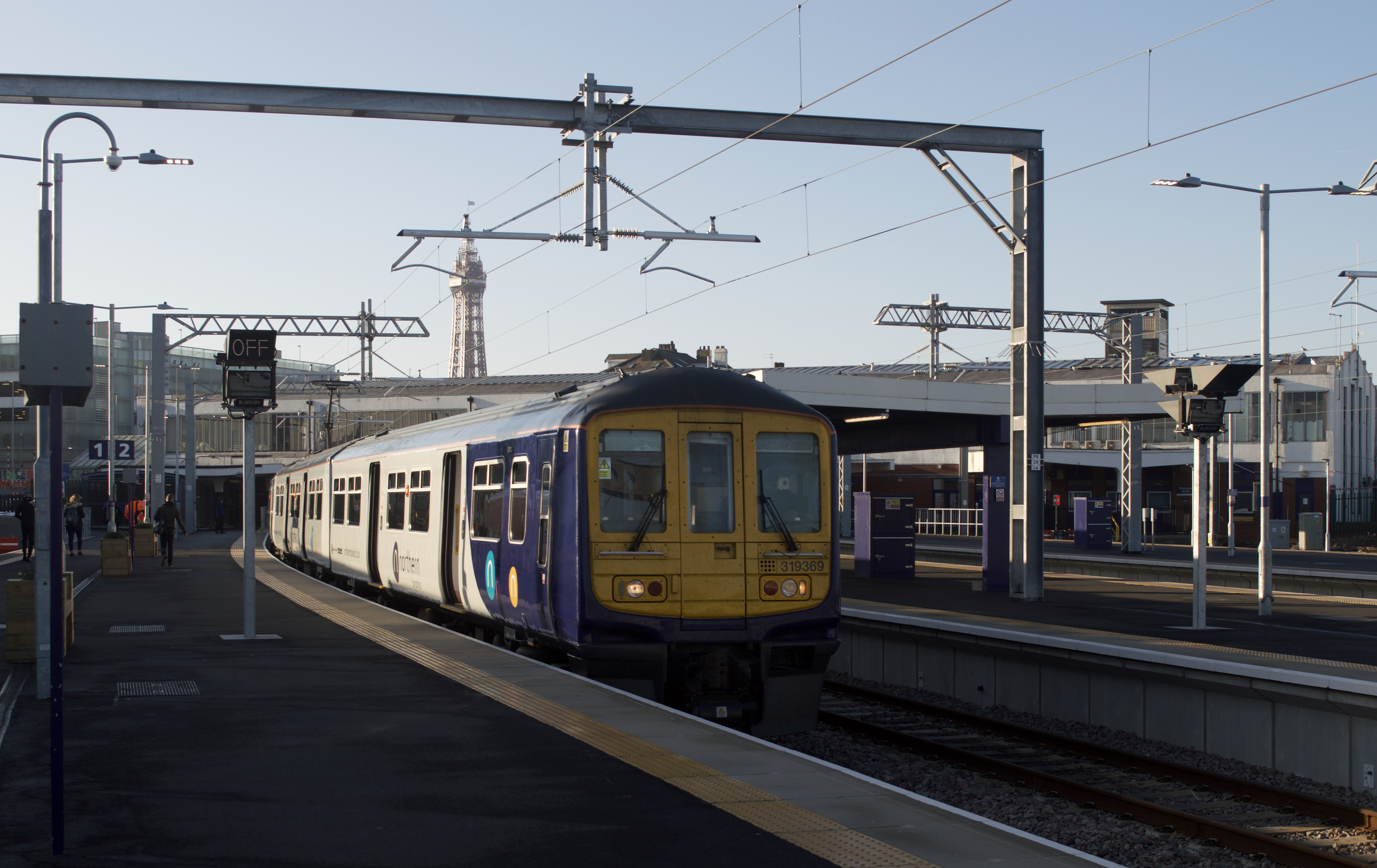 First visit to Blackpool North in many years to see the station with new platforms, overhead electrification and track layout. The line between here and Preston (including the branch to Blackpool South) was closed for several months in early 2018 to allow a majority of the work done on one block. This included re-signalling. Since May 2018, regular EMUs worked trains run through to Manchester and Liverpool as well as Virgin Trains class 390 Pendolino sets through to London Euston. Seen here on 15 November 2018 is class 319 EMU no. 319369 on 2P76, 09:45 Blackpool North to Preston.